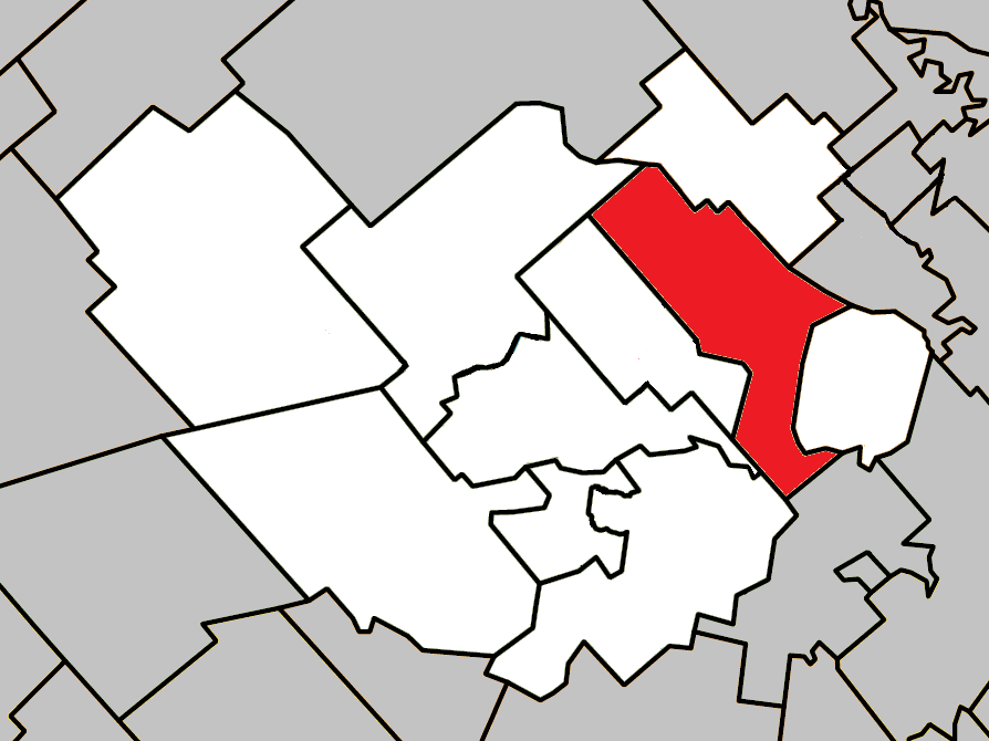 Location of Saint-Jacques, Quebec within Montcalm Regional County Municipality.